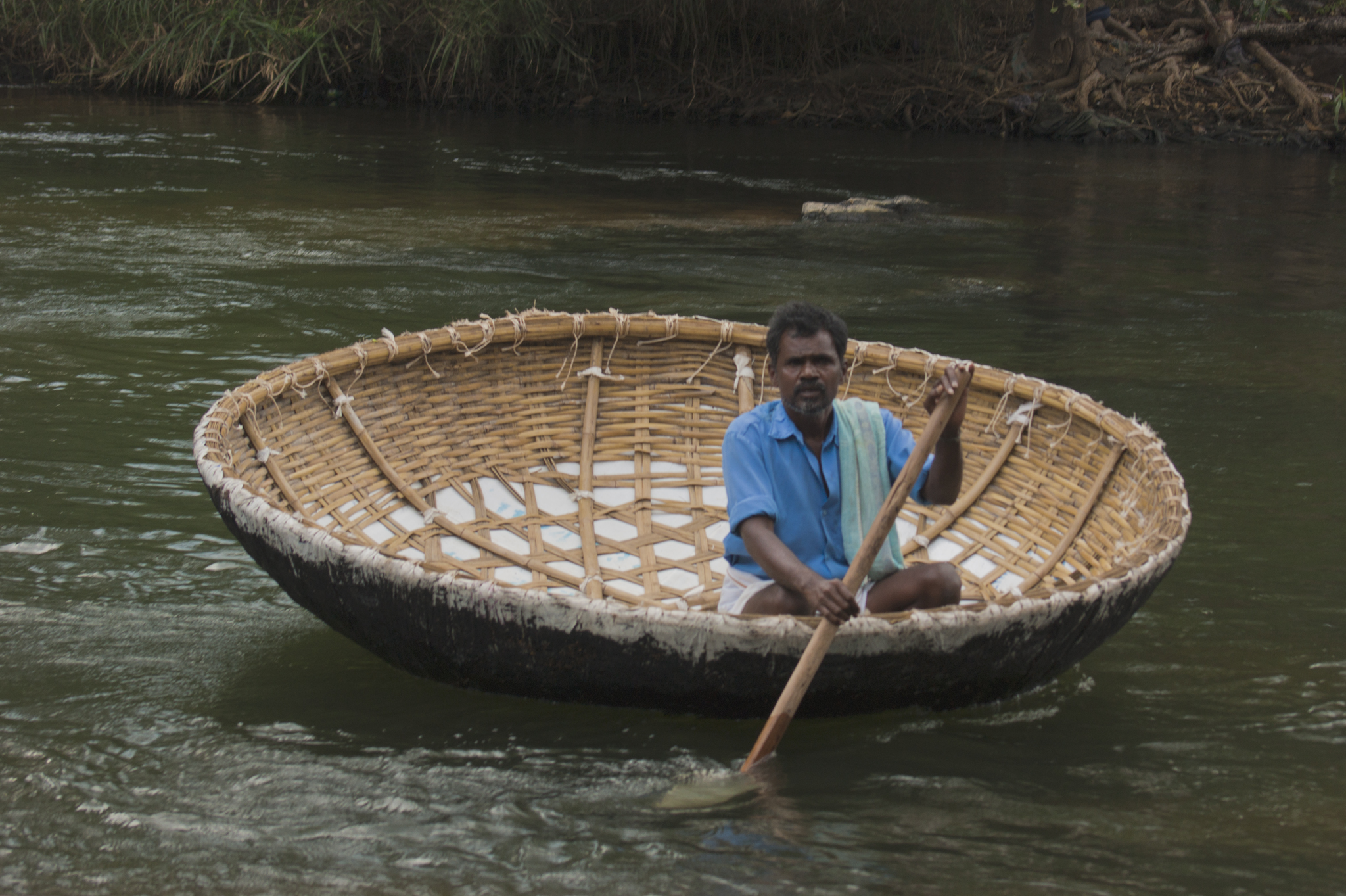 A Coracle at Hogenakkal.